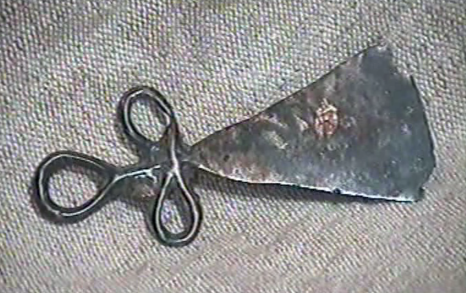 Ritual pendant-knife. Jewellery artifacts from Bronze Age found in Ukraine